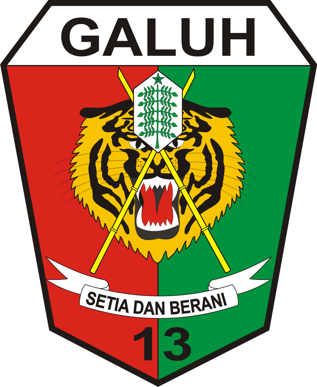 13th Infantry Brigade SSI